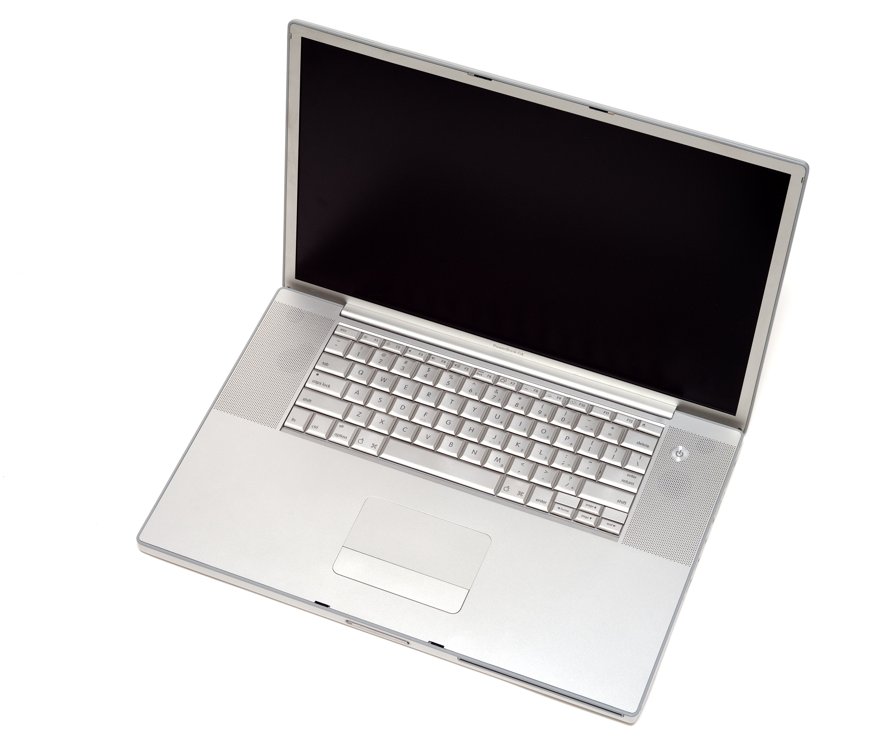 A late-2005 1.67 GHz 17" PowerBook G4 (high-resolution screen).